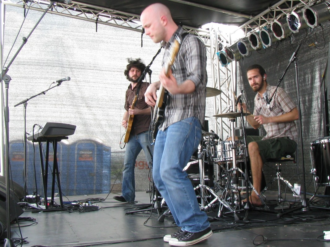 Straylight Run plays the Soundwave festival, Eastern Creek, New South Wales, Australia